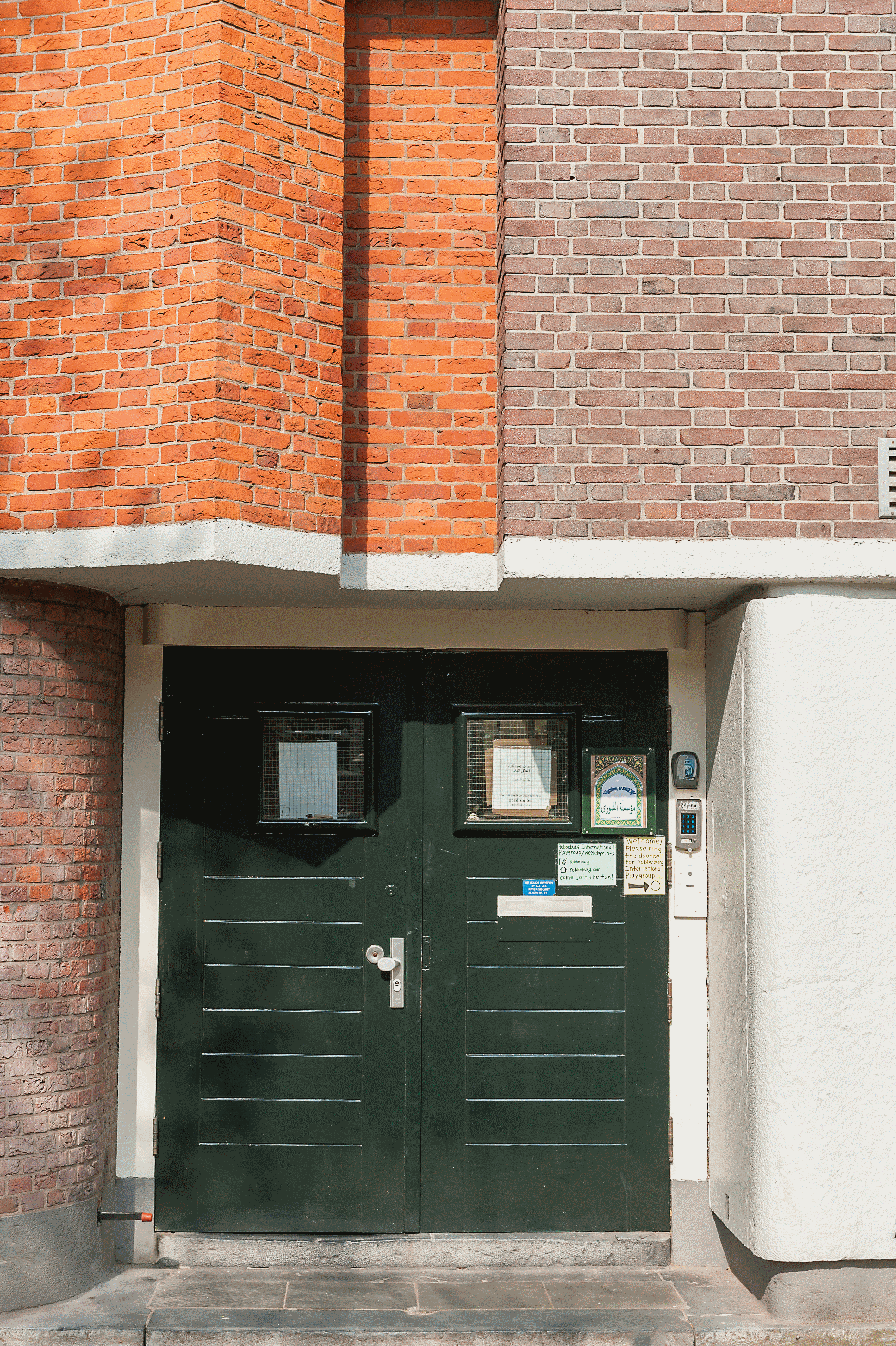 Jeker School Entrance